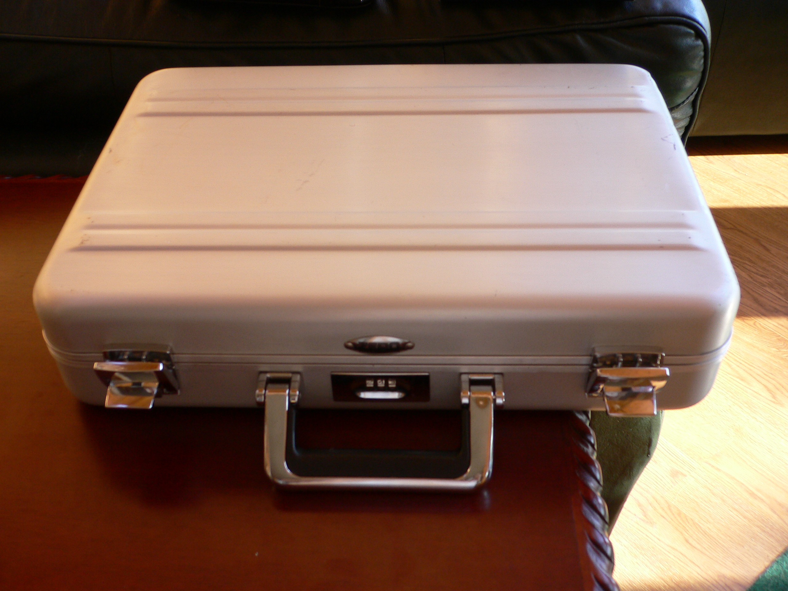 Original description: My old Zero Halliburton laptop case.